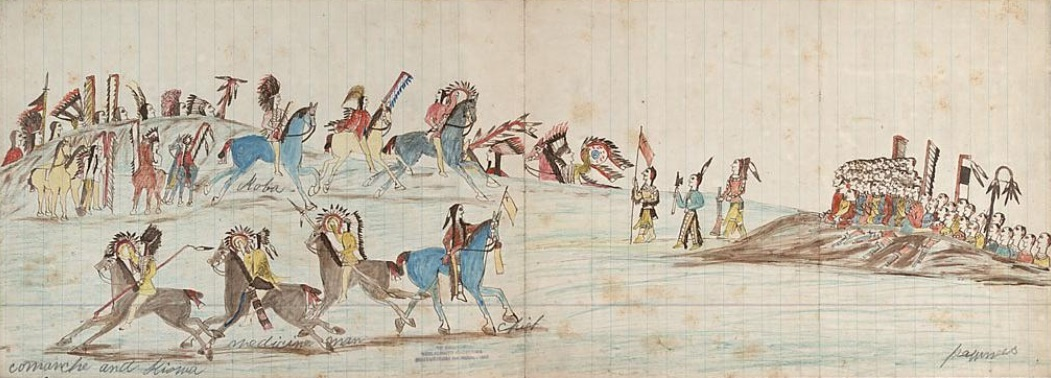 Group of allied Kiowa and Comanche meeting a battalion of Pawnee warriors, by Koba (Kiowa artist) 1875.